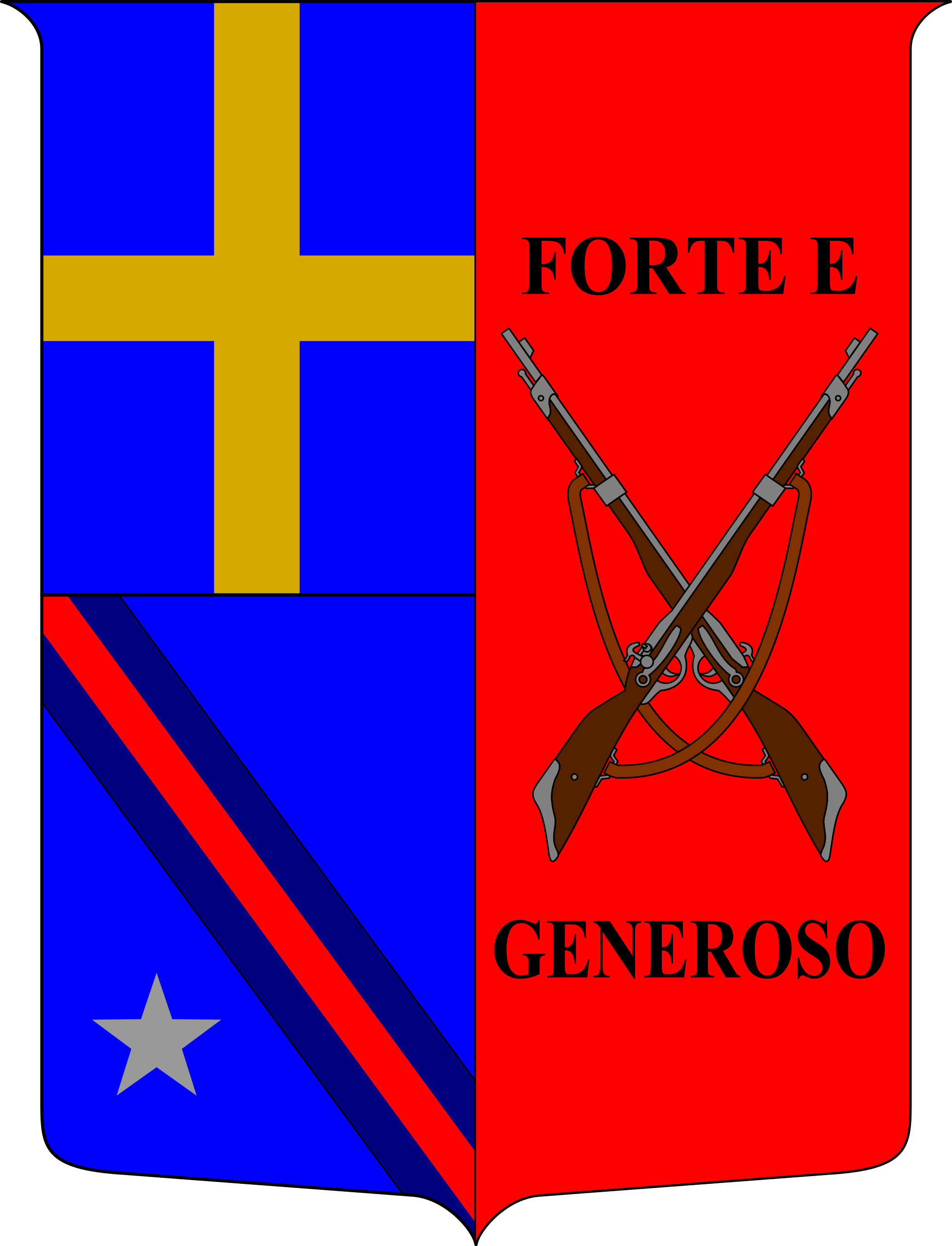 Coat of Arms of the 86th Infantry Regiment "Verona", Royal Italian Army, 1939